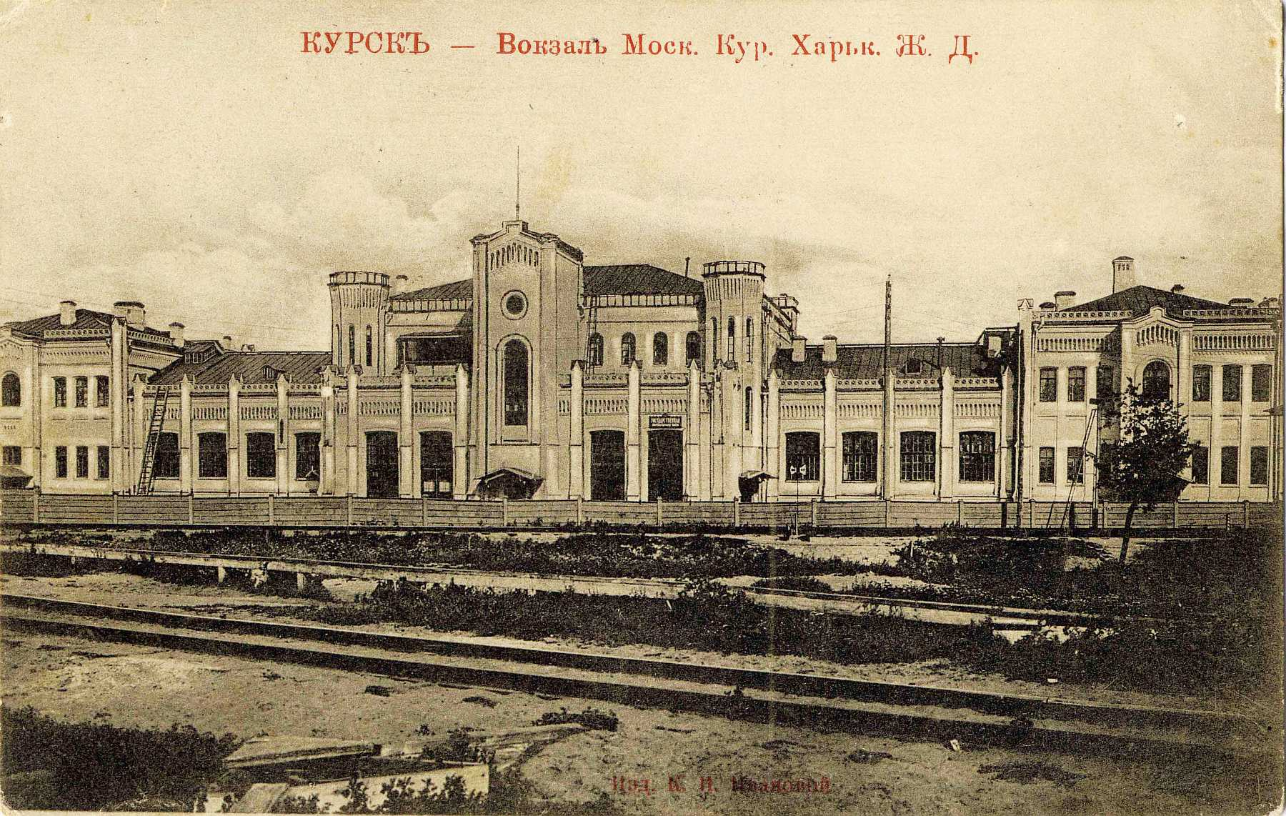 Old Kursk Train Station (Yamskoy Vokzal, Kursk I) in the begining of XX century.